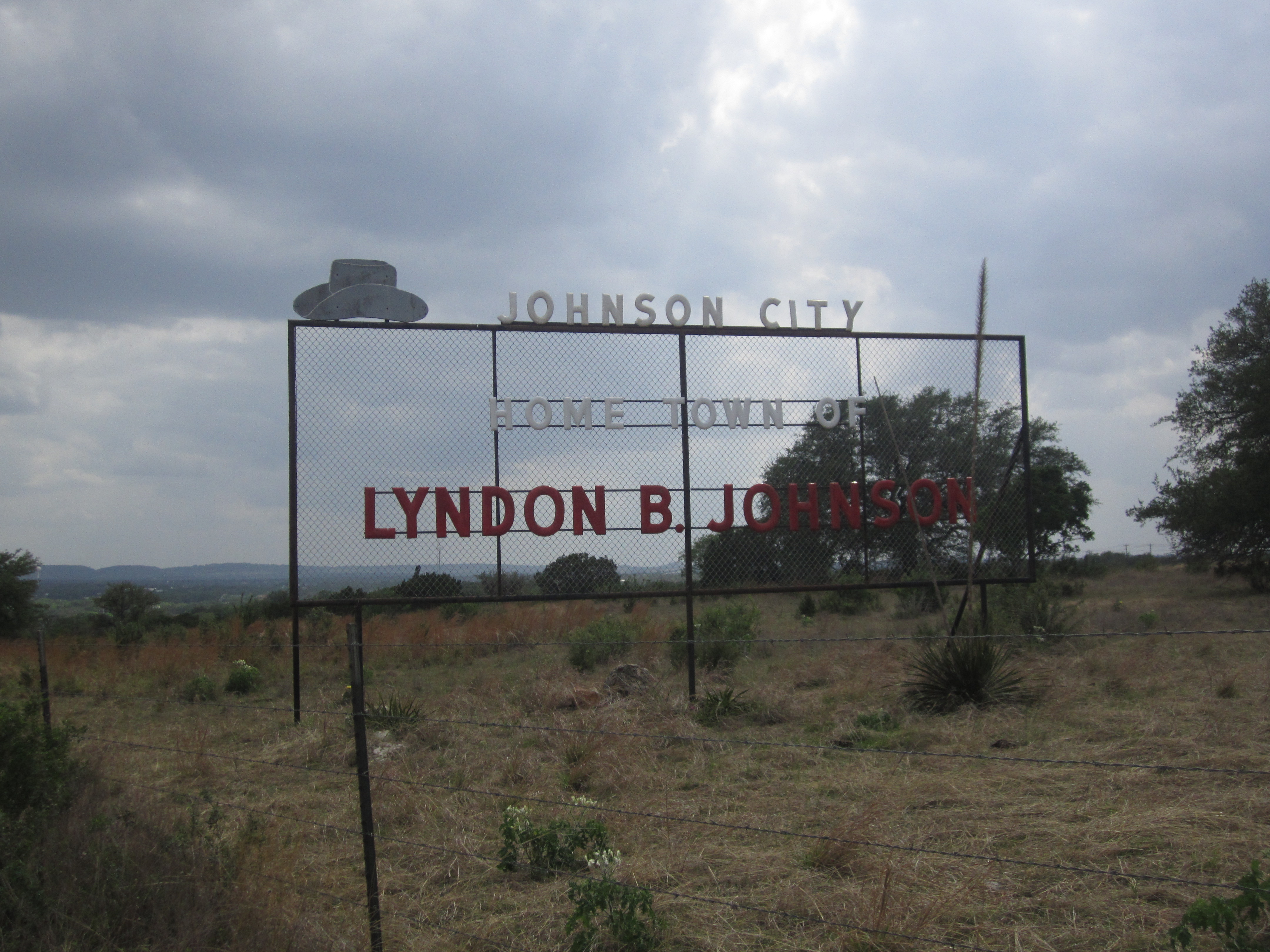 I took photo with Canon camera in Johnson City, TX.